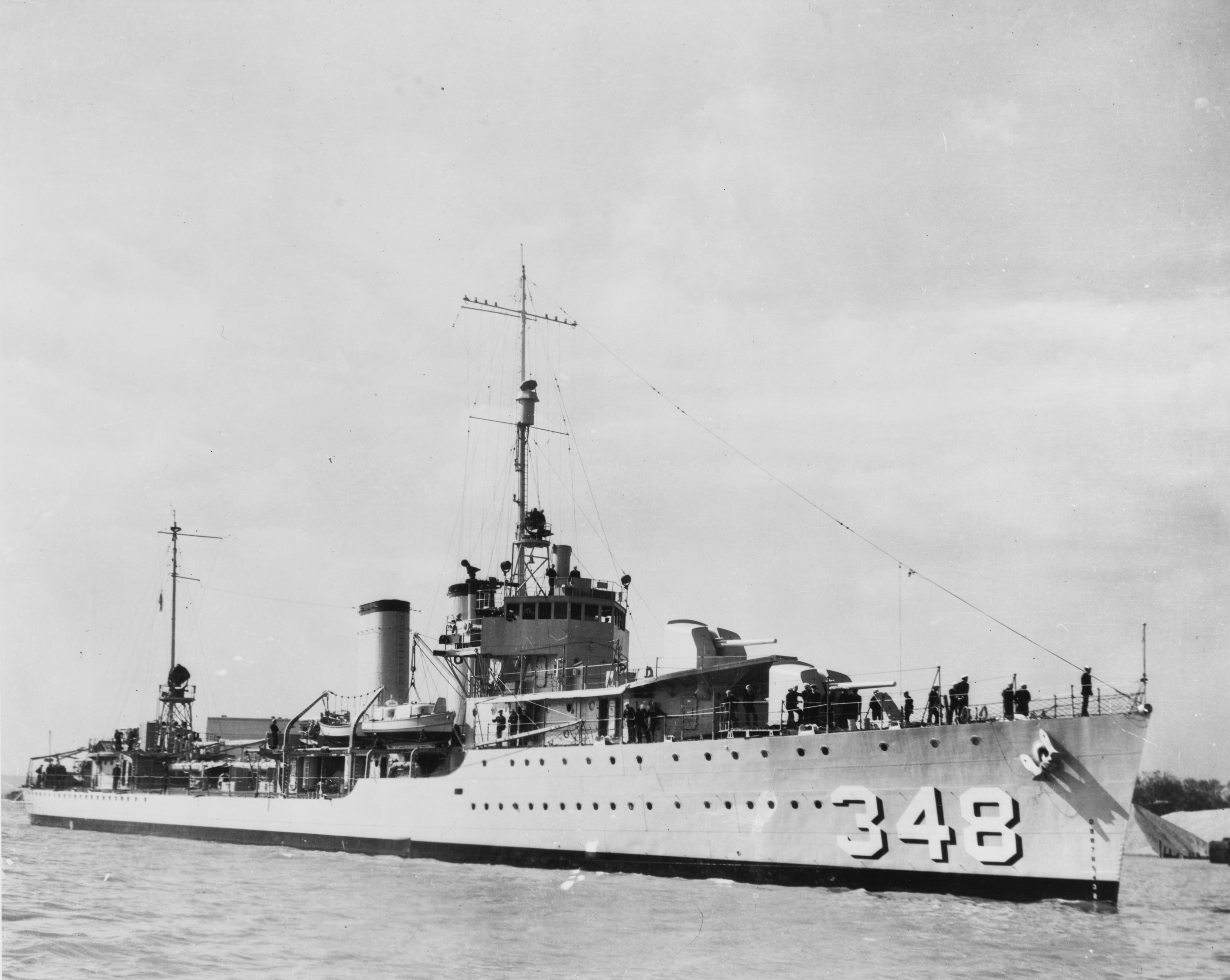 In harbor, circa 1935. Note that her hull number was then painted low on the hull, just above the boot topping. Photograph from the Bureau of Ships Collection in the U.S. National Archives.